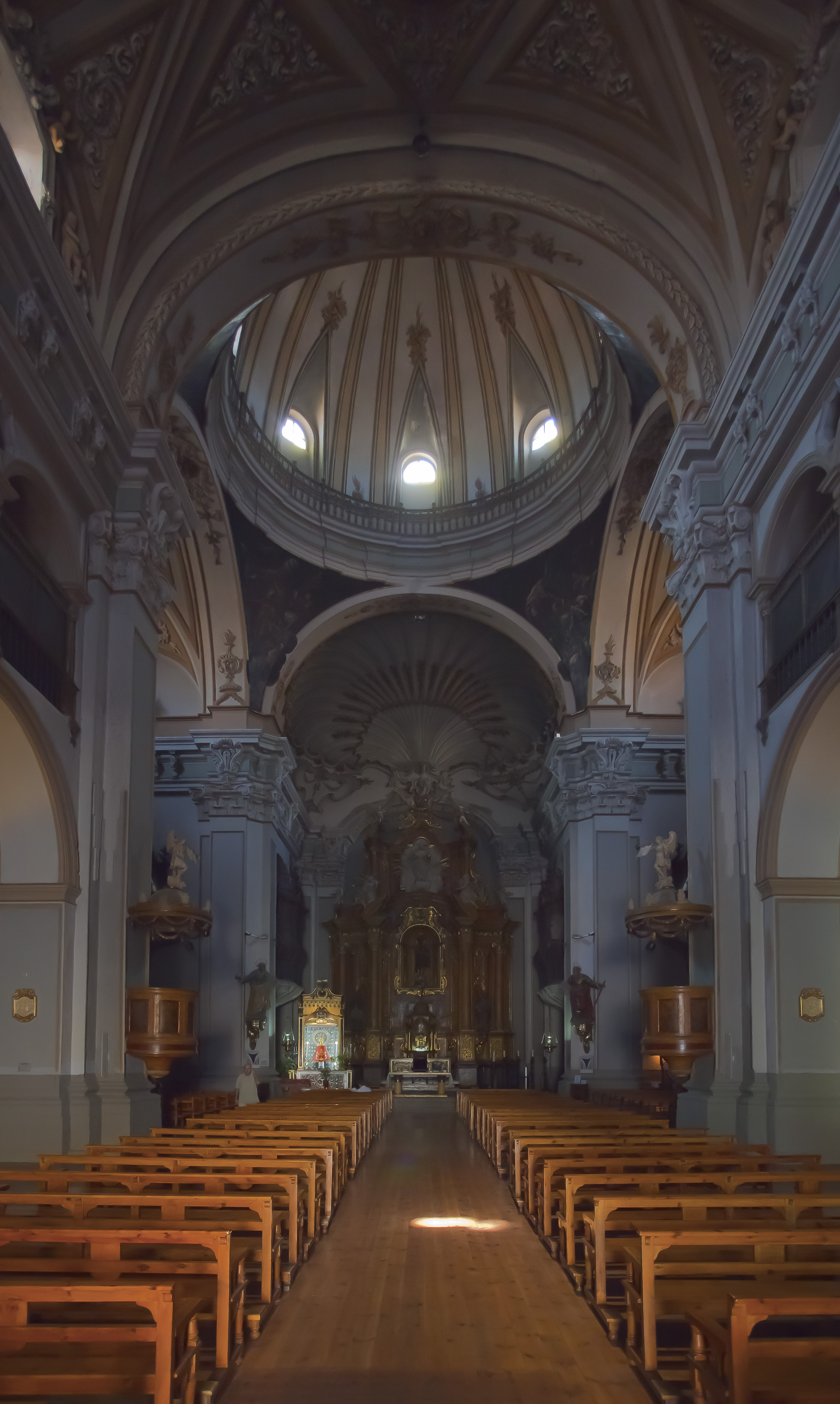 Church of San Juan El Real, Calatayud, Spain